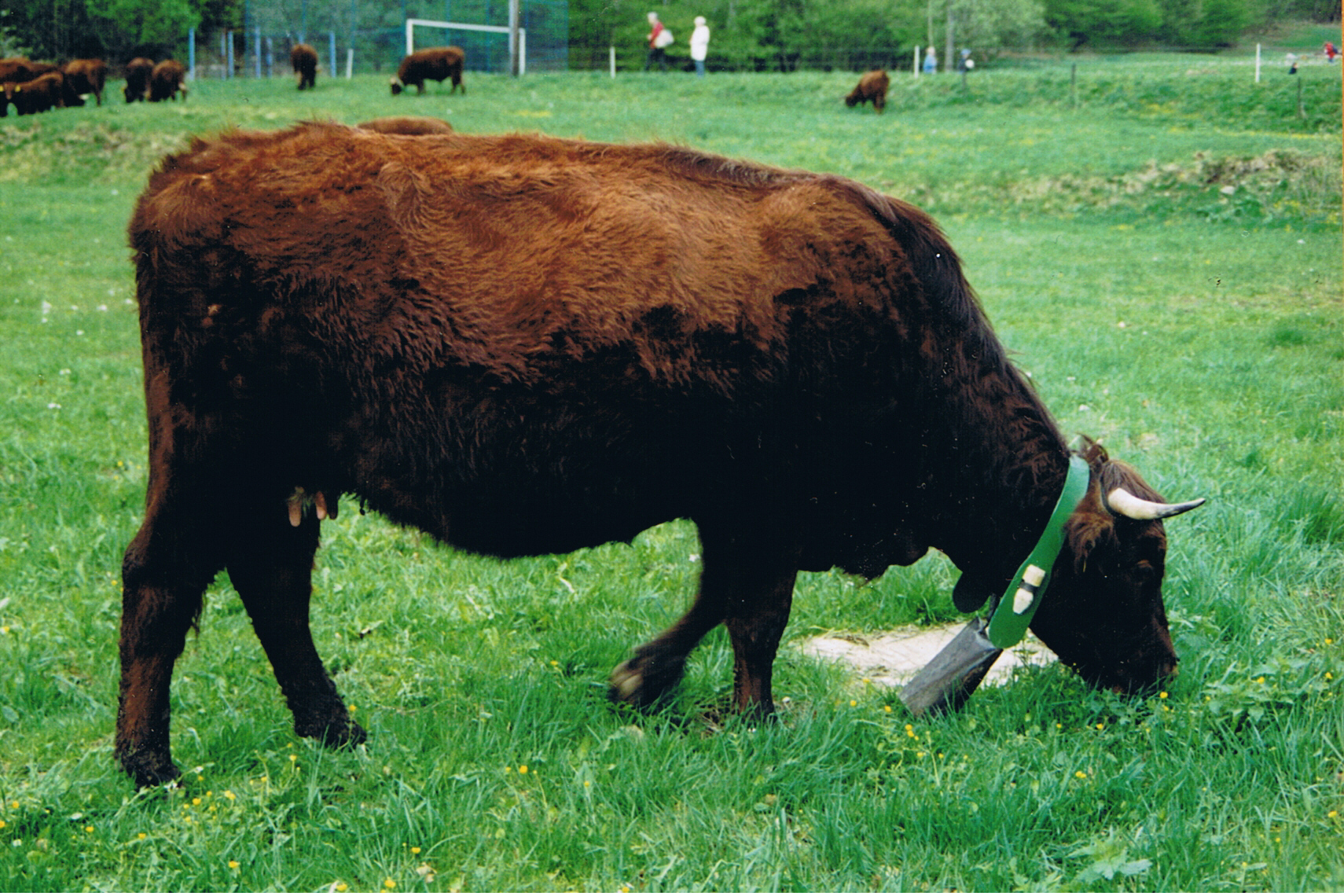 A cow of the race of Harz Red mountain cattle with a bell, typical for the Harz Mountains.